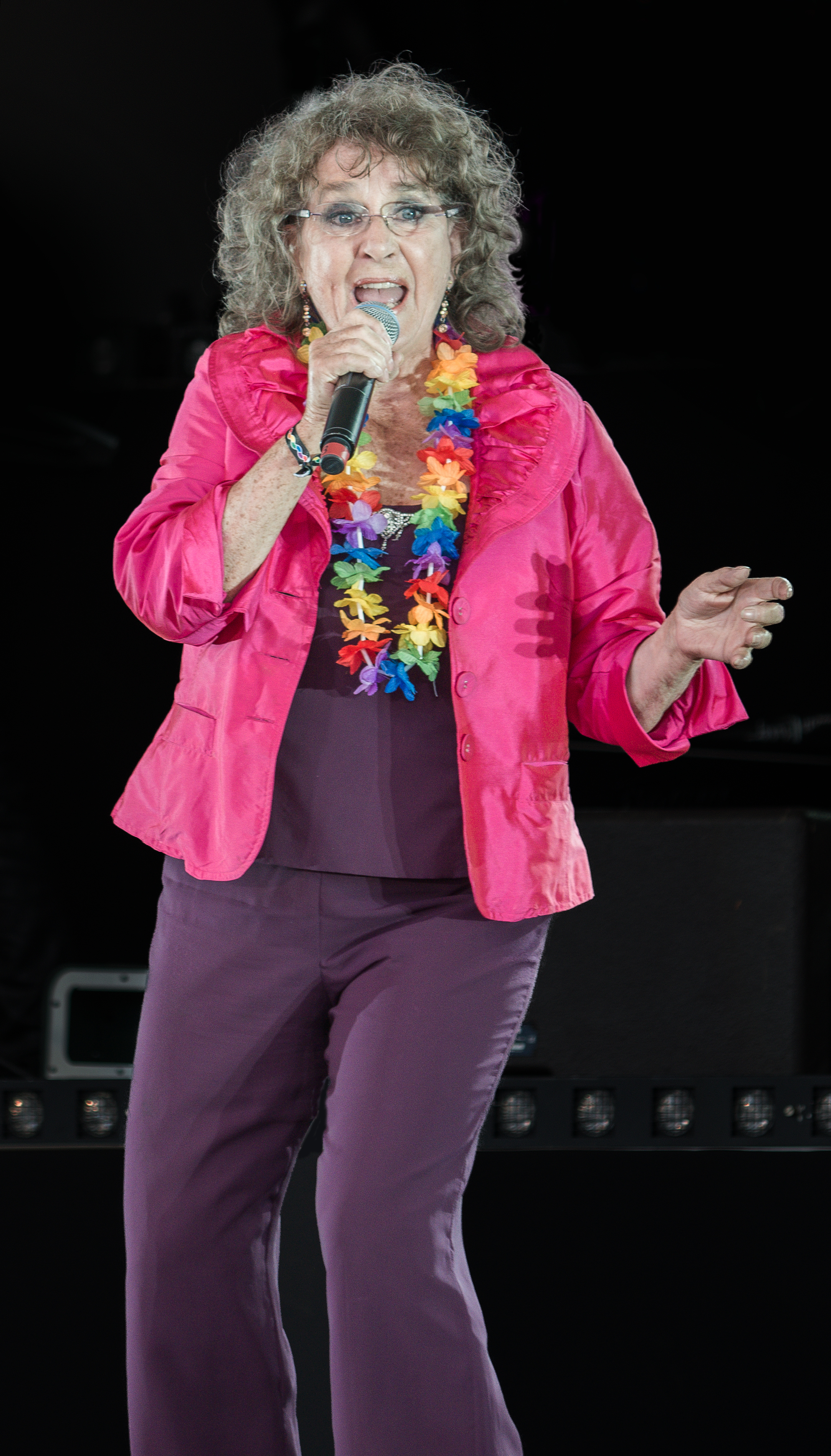 Siw Malmkvist July 2014